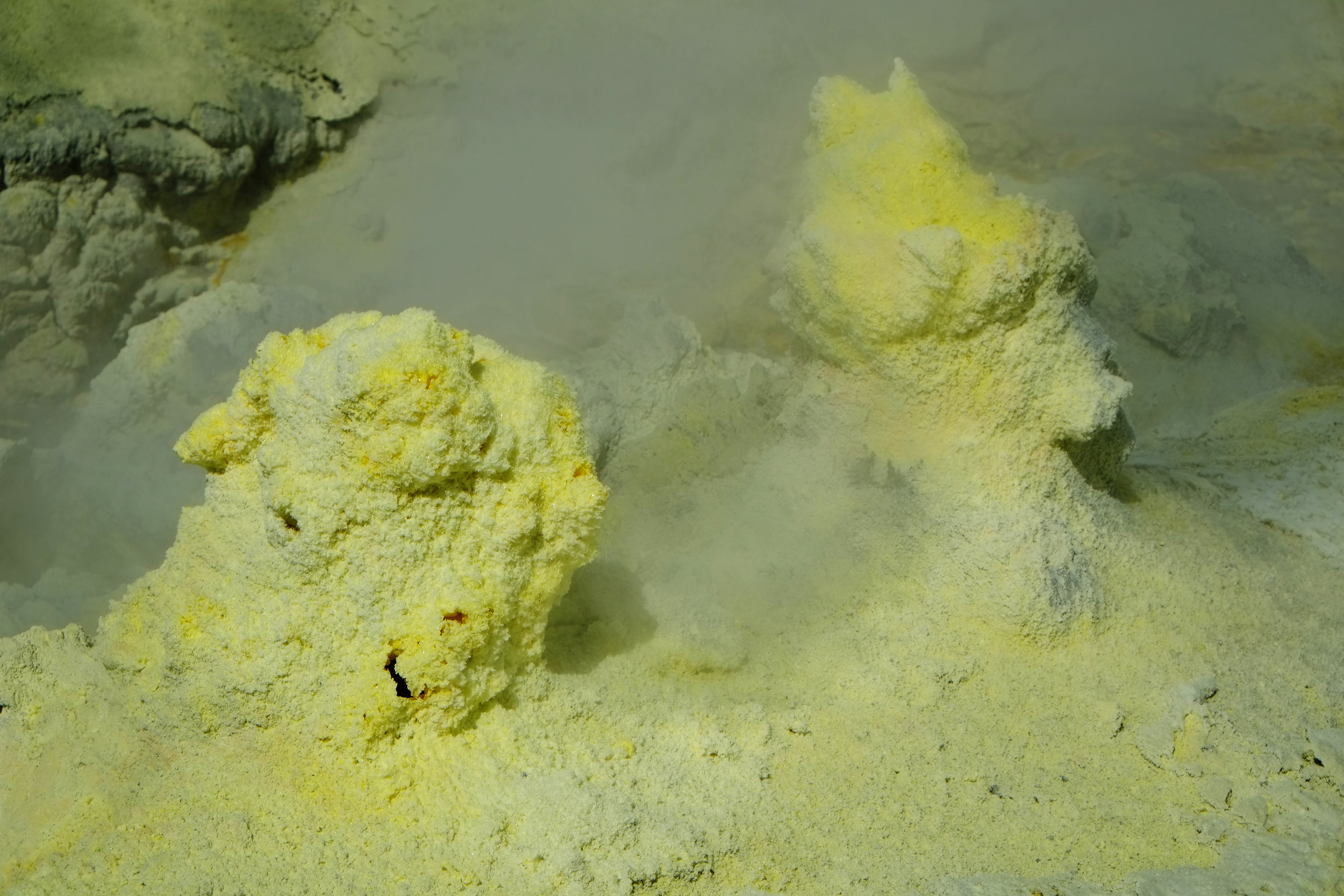 Yellow formations of sulphur crystals on White Island